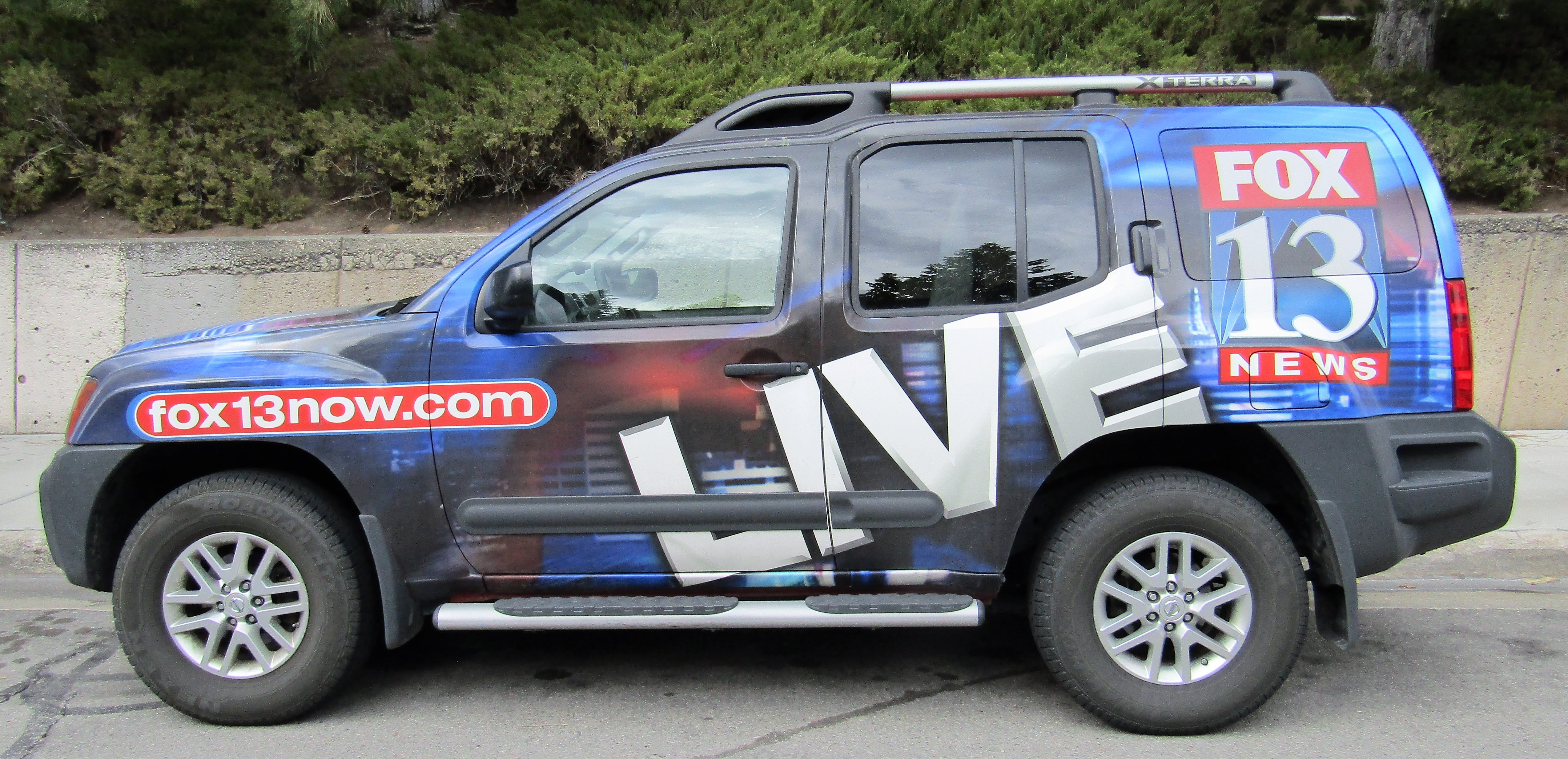 News van for Fox 13 parked during General Conference.